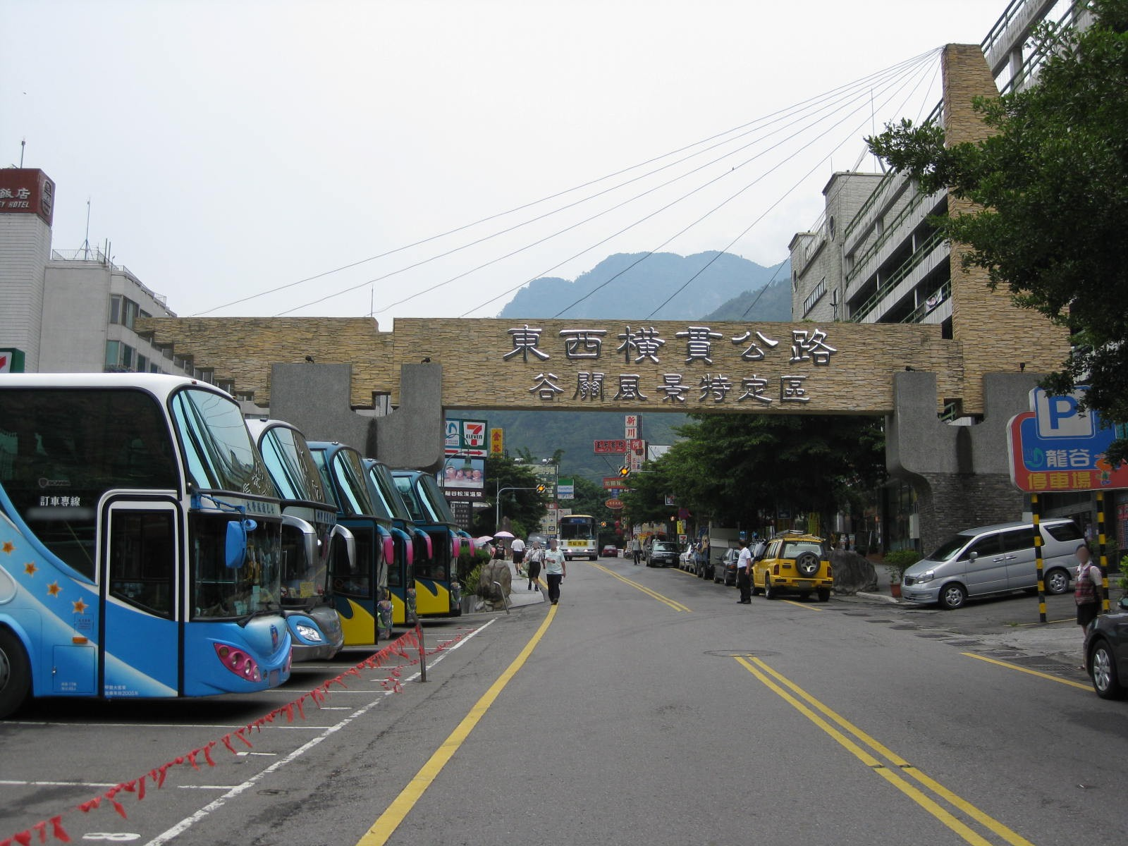 The paifang of Guguan loacted on the Central Cross-Island Highway in Taiwan.